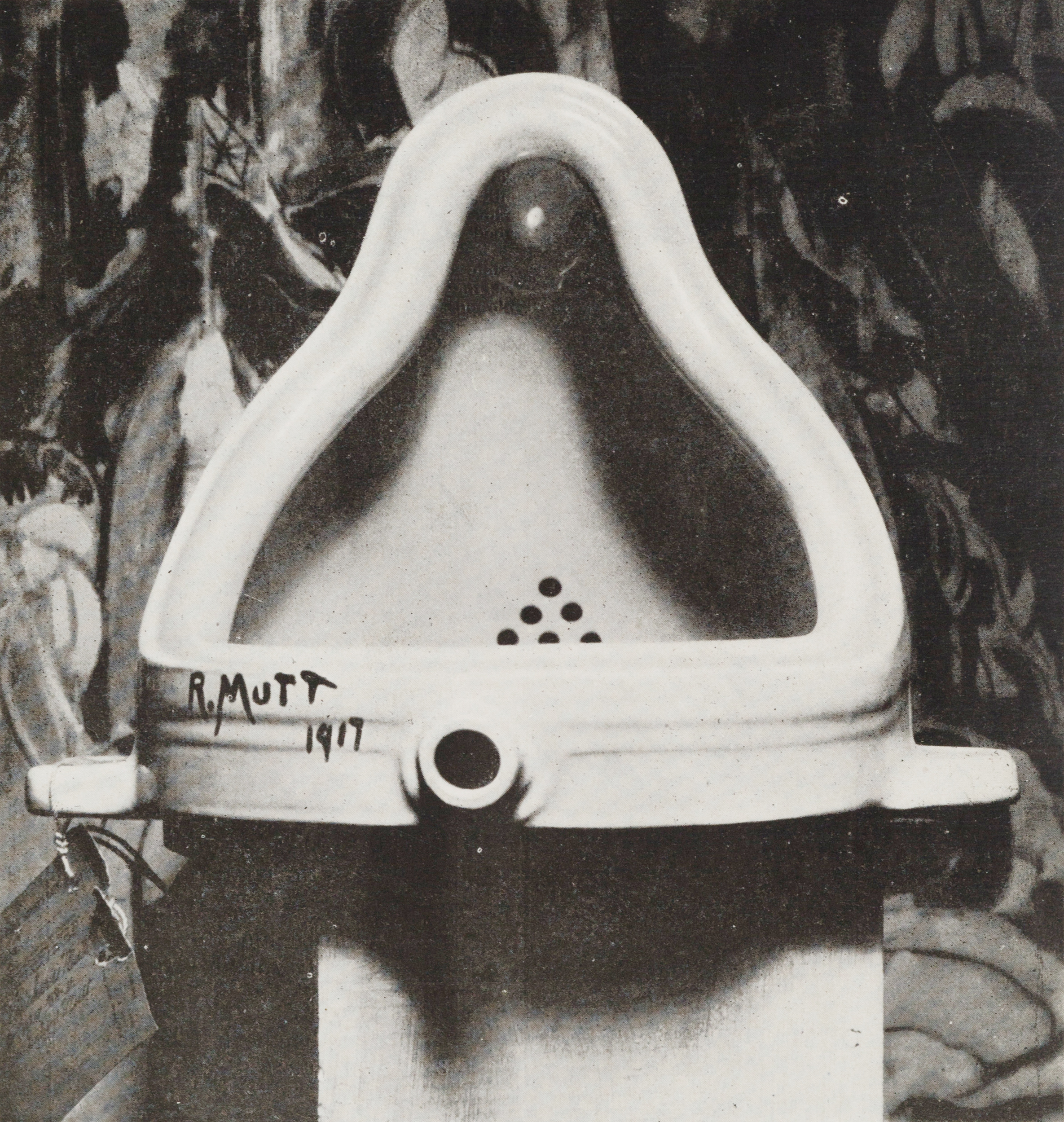 Urinal "readymade" signed R. Mutt; early example of "Dada" art. A paradigmatic example of found-art. Photograph by Alfred Stieglitz. Captions read: "Fountain by R. Mutt, Photograph by Alfred Stieglitz, THE EXHIBIT REFUSED BY THE INDEPENDENTS"